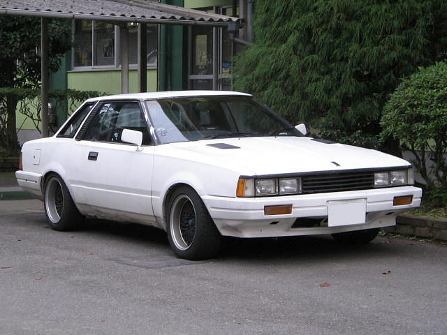 Nissan "Slivia" (S110 / 3rd generation)